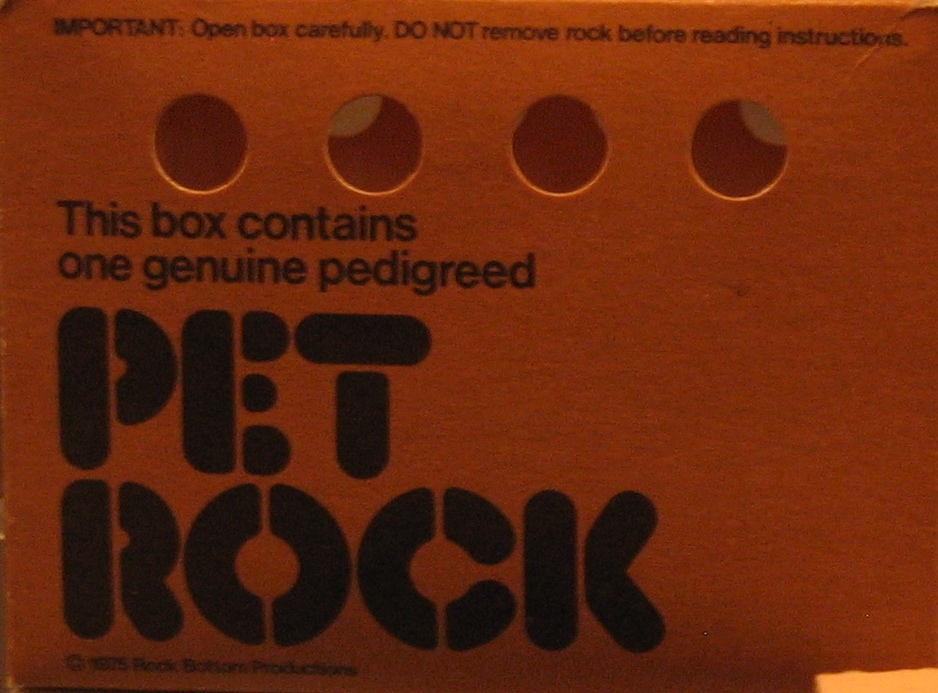 Cover of a Pet Rock box.